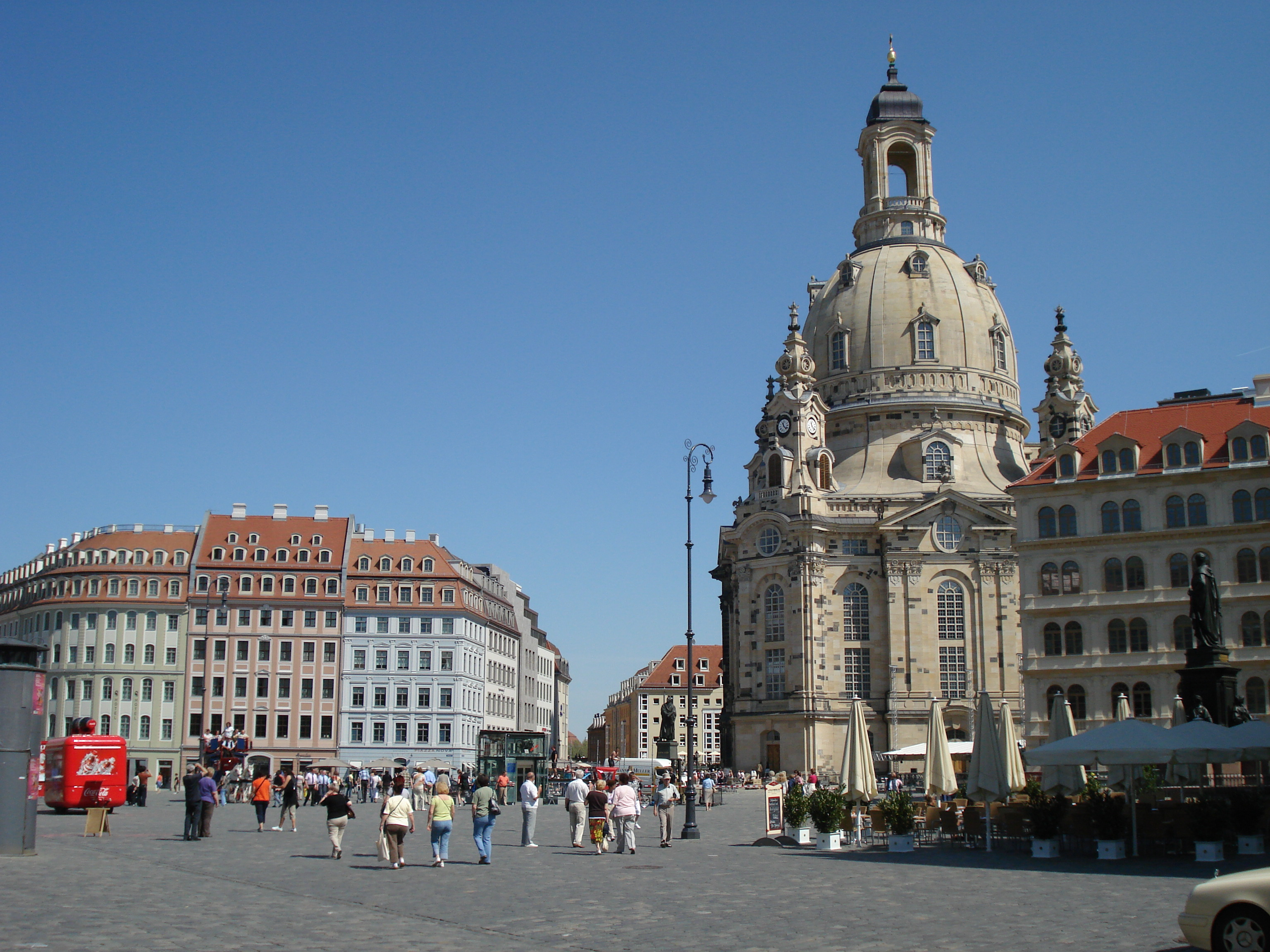 The Church of Our Lady in Dresden.